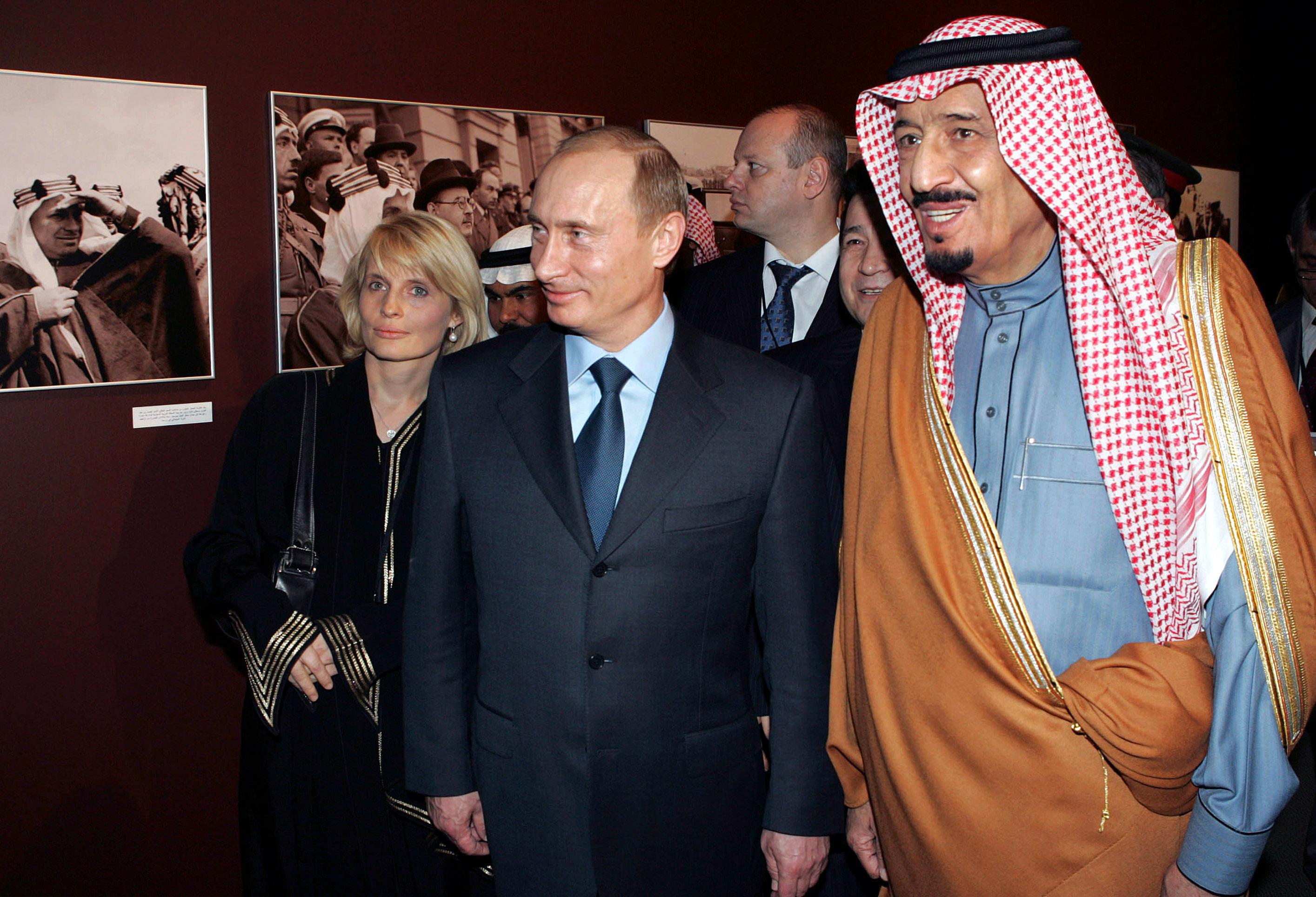 RIYADH. At the photo exhibition, Russia: the Country and the People. With Head, Editor-in-Chief of the RIA Novosti information agency Svetlana Mironyuk and Prince Salman bin Abdul Aziz.